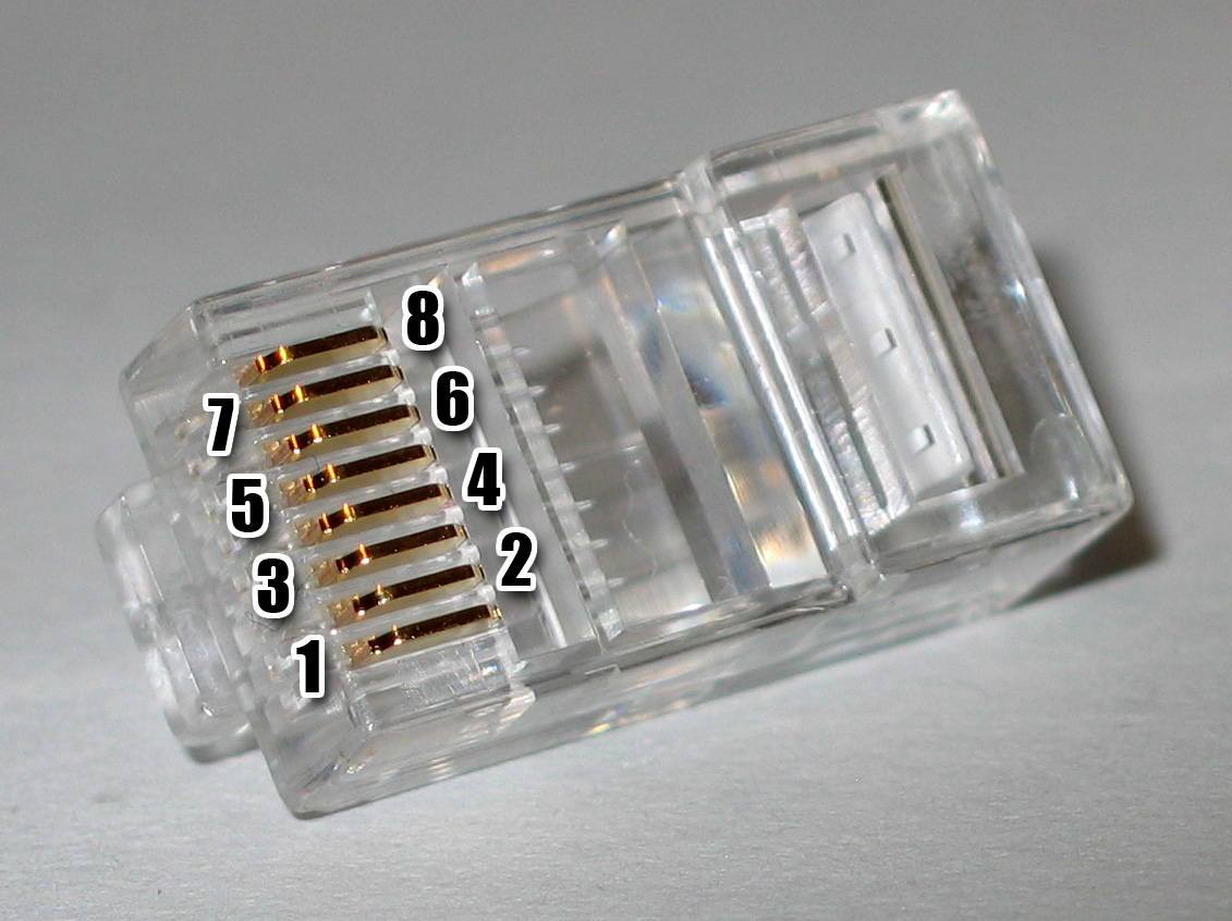 RJ45 Connector with pin numbers overlayed